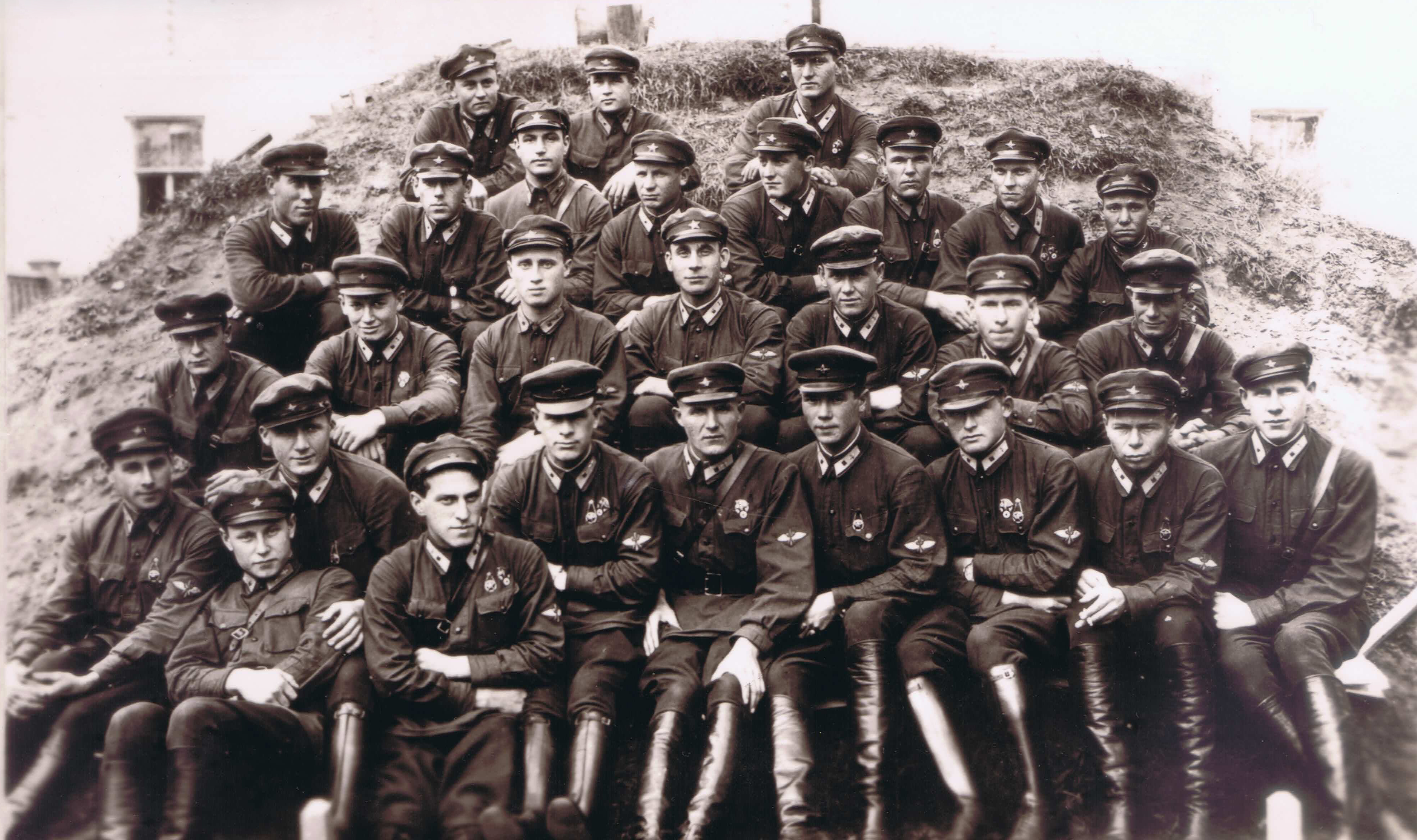 Technical Personnel of the 43rd FAR